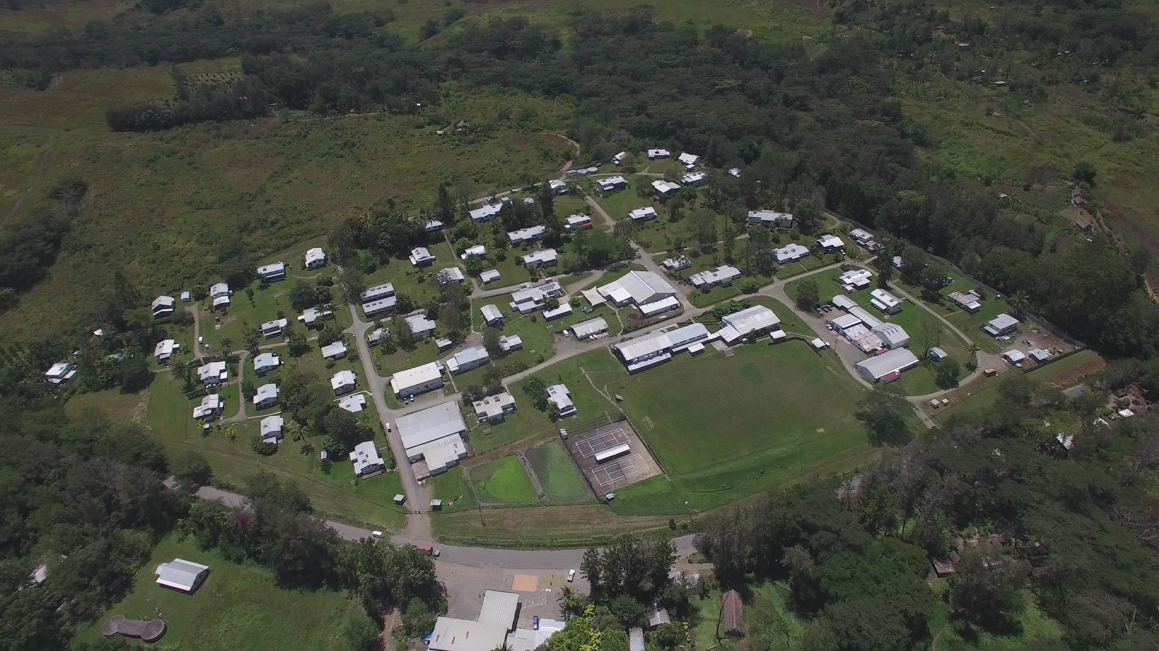 Overview of the Mission Base Lapilo